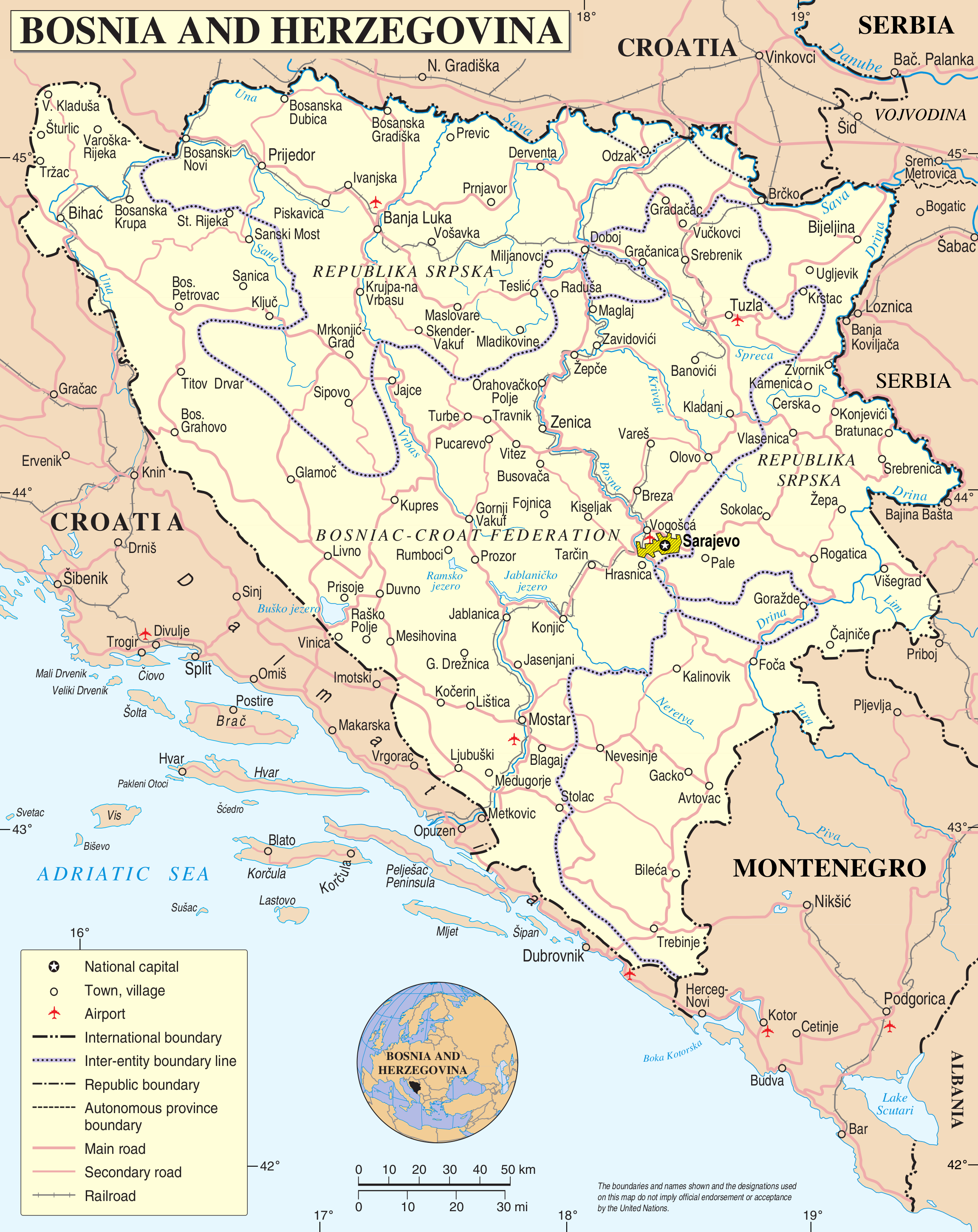 Map of Bosnia and Hercegovina